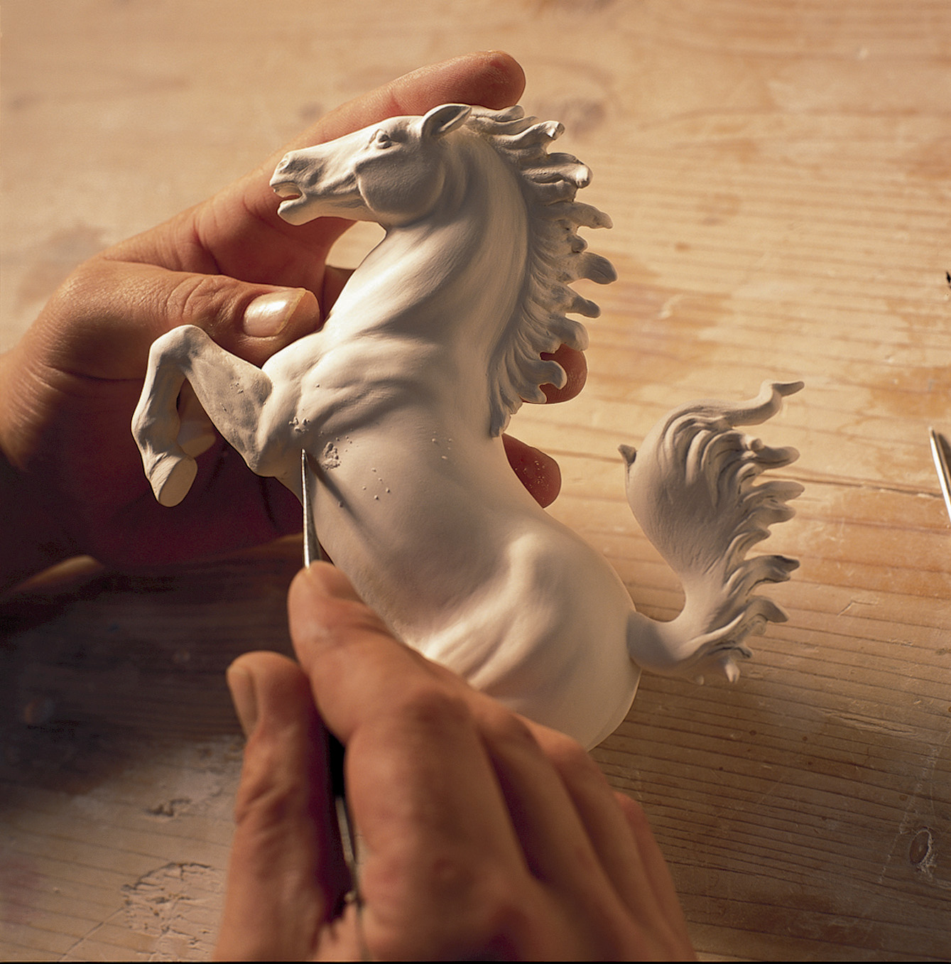 Porcelaine production, joining of figural parts (german: bosieren)